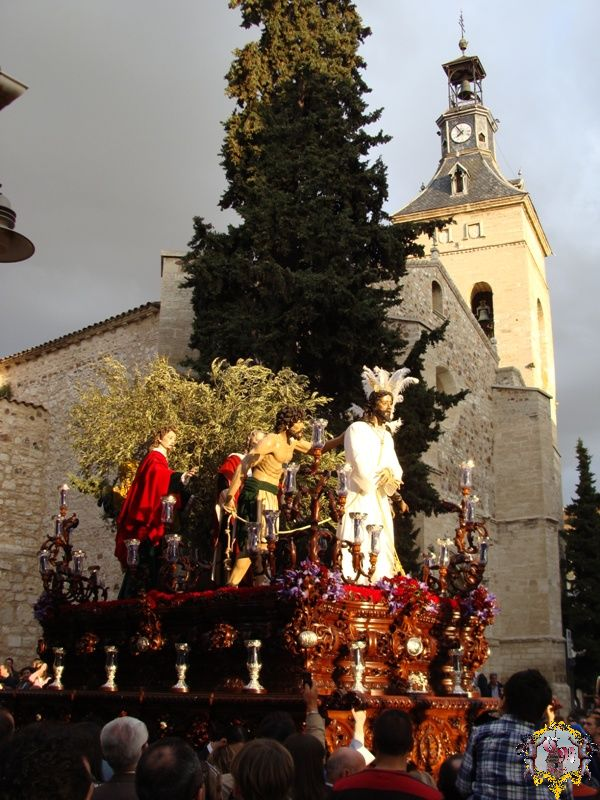 Prendimiento2012